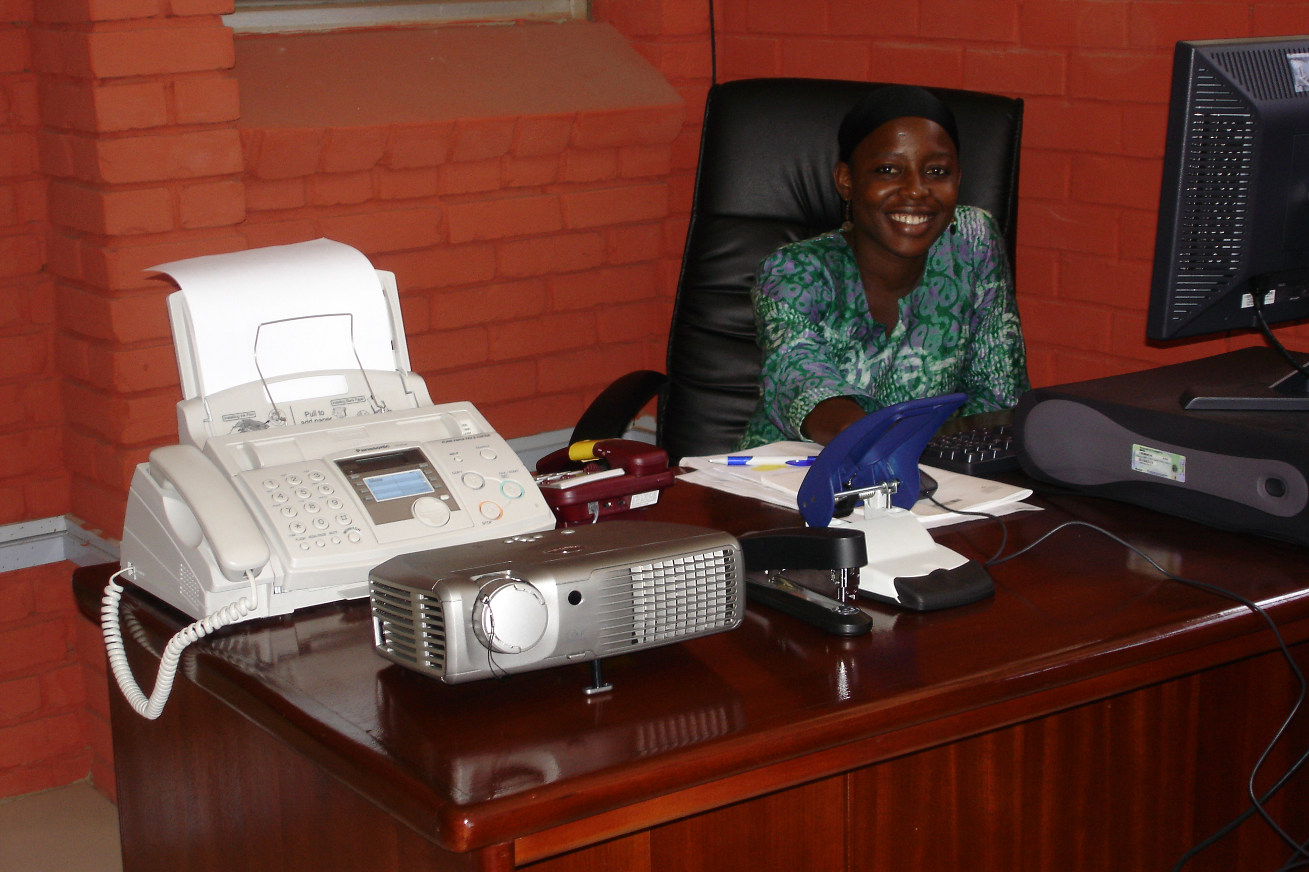 visit tamale own pictures 012